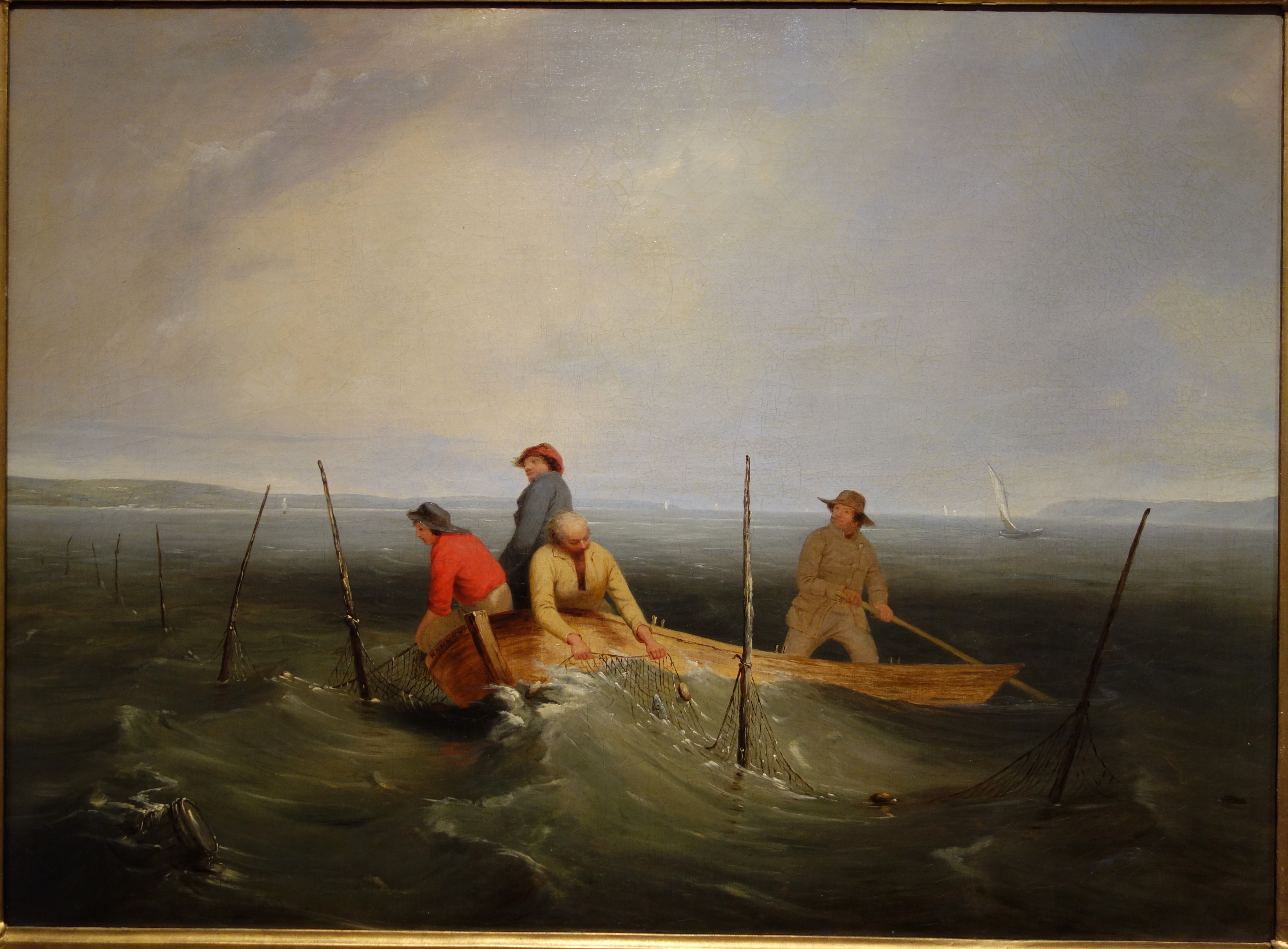 Exhibit in the New Britain Museum of American Art, New Britain, Connecticut, USA. This artwork is in the public domain because the artist died more than 70 years ago. The museum permitted photographs of this exhibit without restriction.